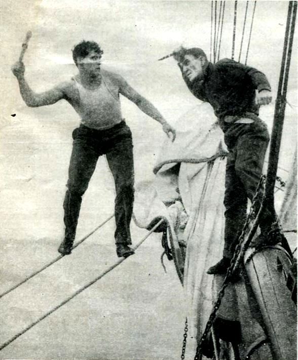 Still from the American film The Shark (1920) with George Walsh and William Nally, on page 59 of the January 1921 Film Fun.